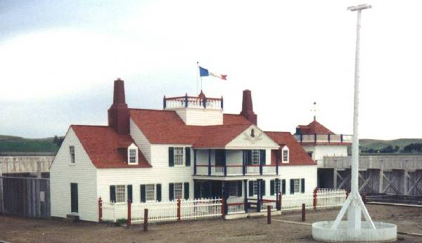 Picture of Fort Union Trading Post National Historic Site on the North Dakota / Montana Border